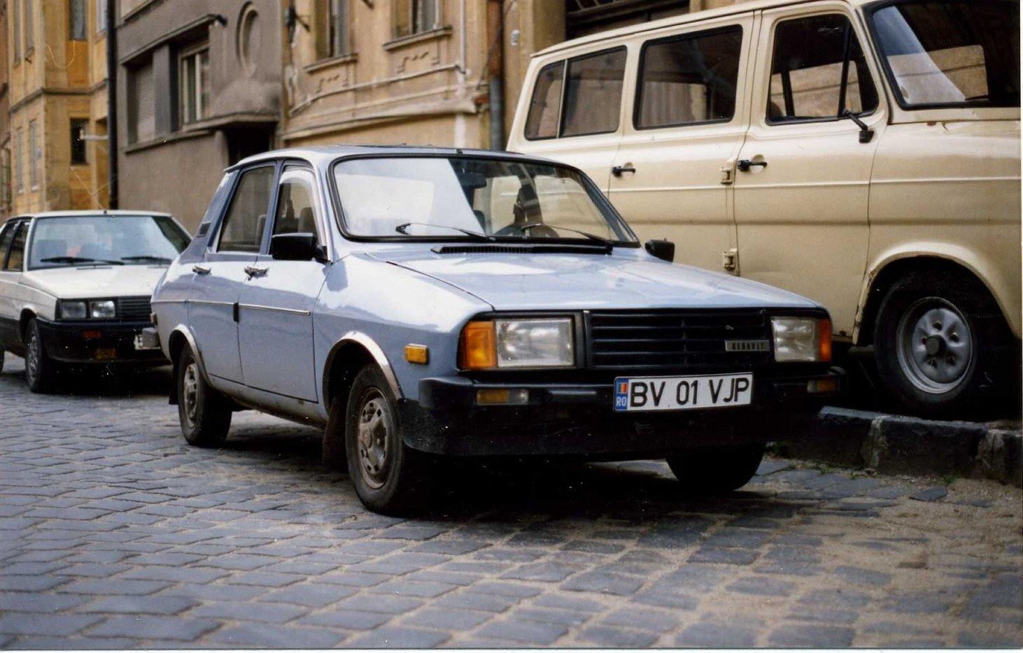 New style registration with Romanian flag and country identifier, BV for Brasov. A nice cream Ford Transit is behind the Dacia.